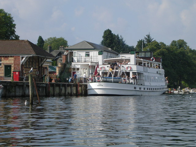 Teal at Lakeside This is taken from a rowing boat hired from the National Trust's Fell Foot Park.